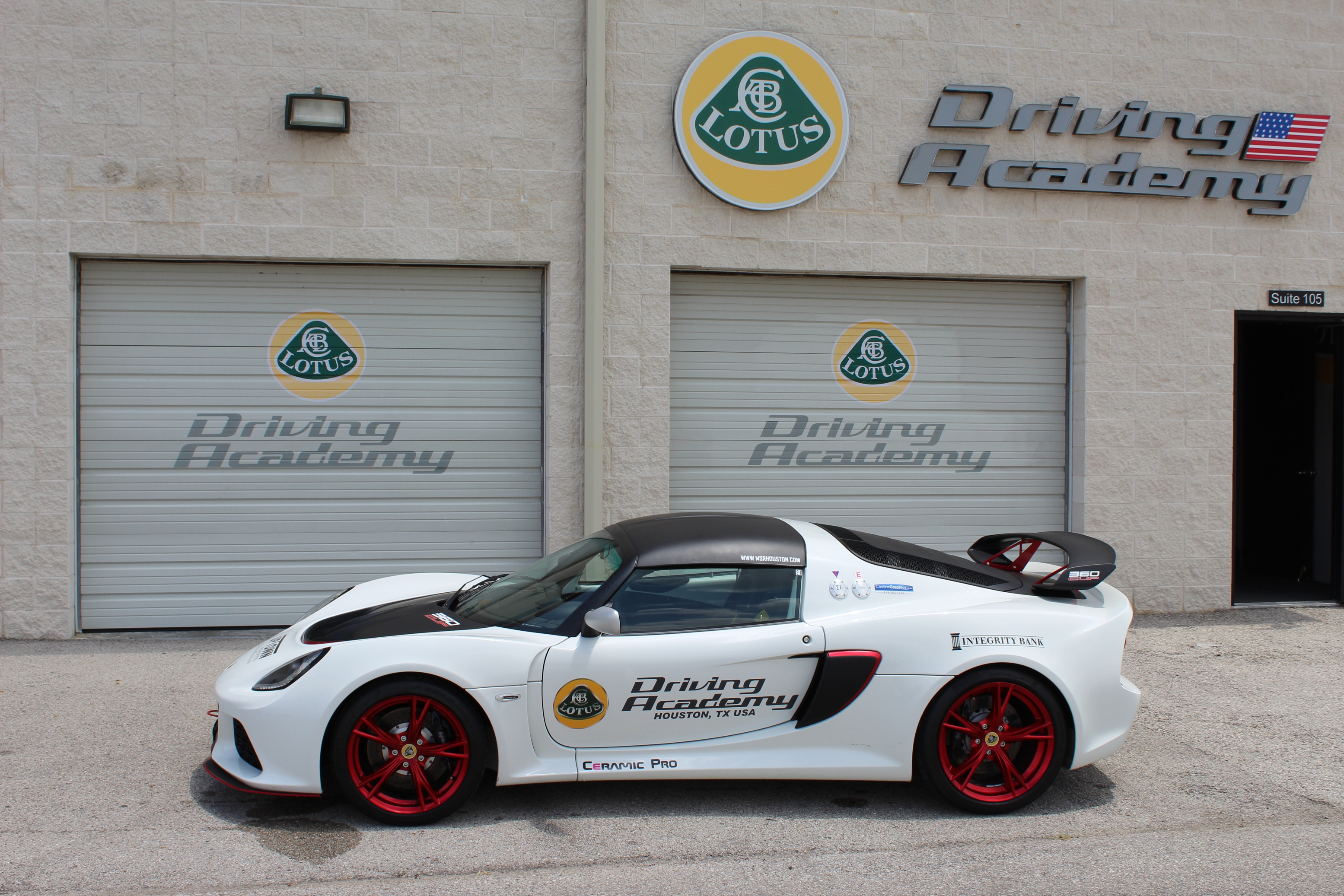 MSR Houston Texas